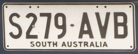 South Australian registration plate